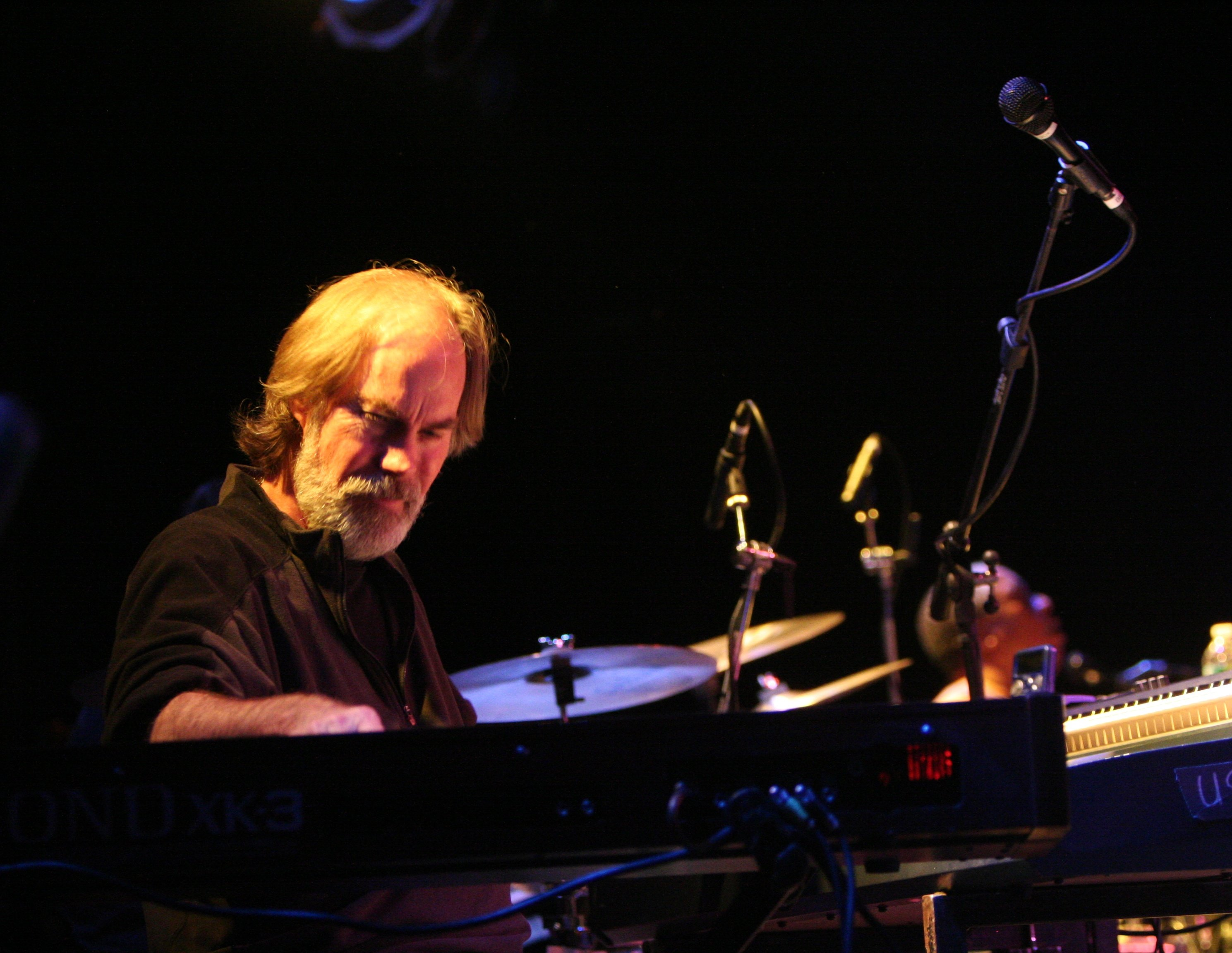 Bill Payne of Little Feat At a benefit show for drummer Richie Hayward (who is suffering from liver disease and has no medical insurance). The Higher Ground, Burlington, Vermont January 14, 2010